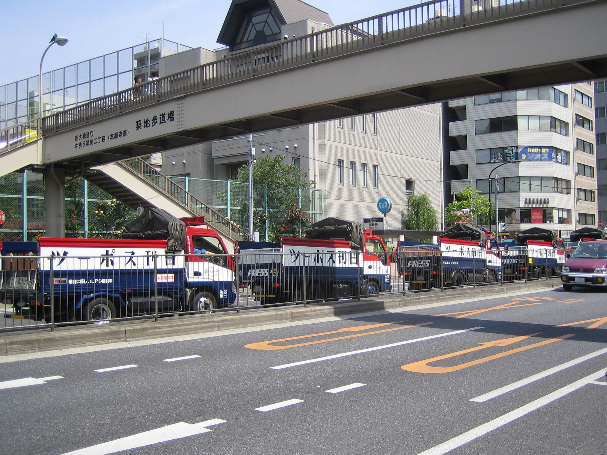 Trucks of theNikkan Sports (日刊スポーツ)